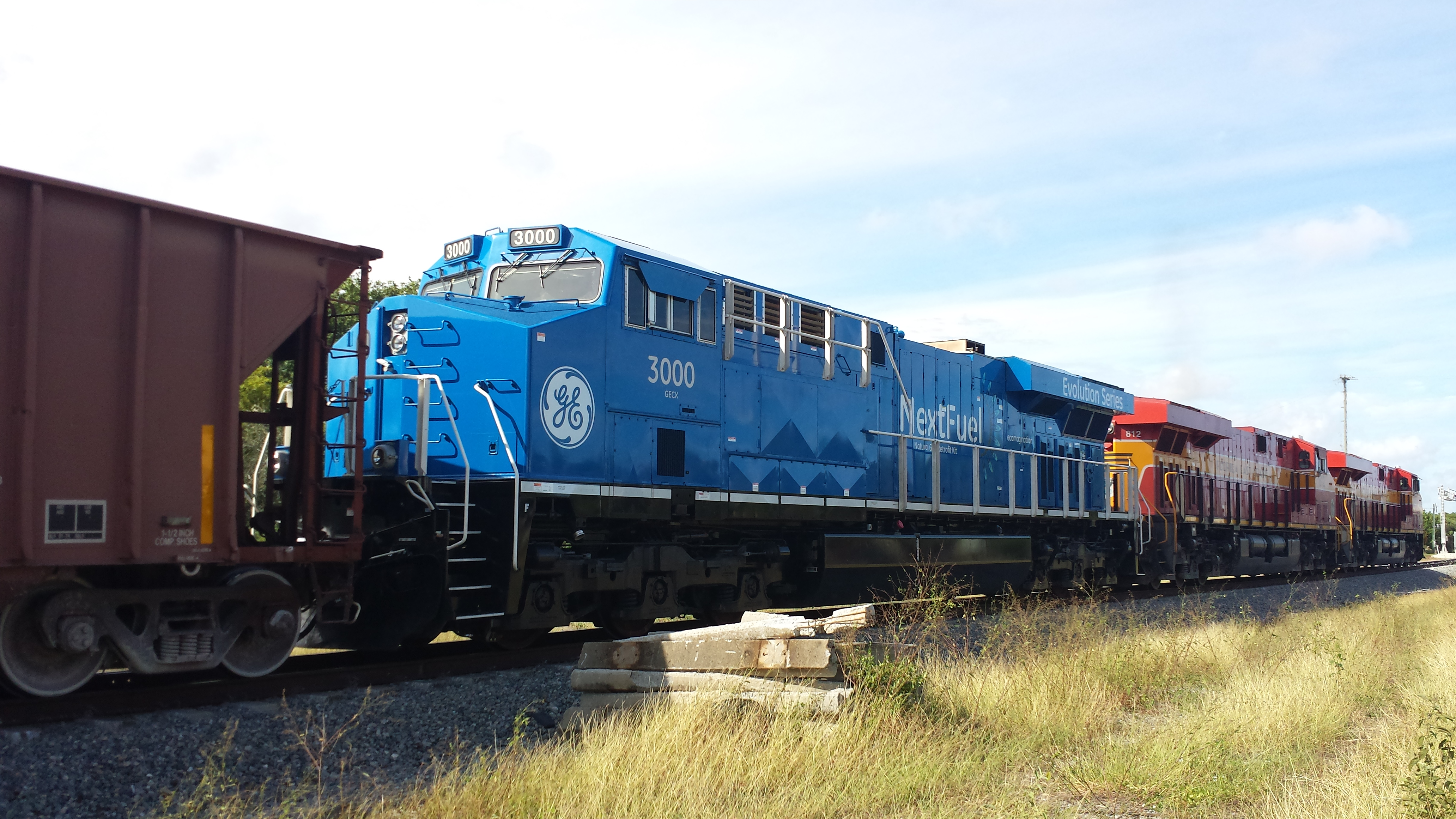 FEC is going green by trying out other fuels like Liquified Natural Gas( LNG ). This will not only save FEC money but will also have a smaller carbon footprint and will be greater for our environment.